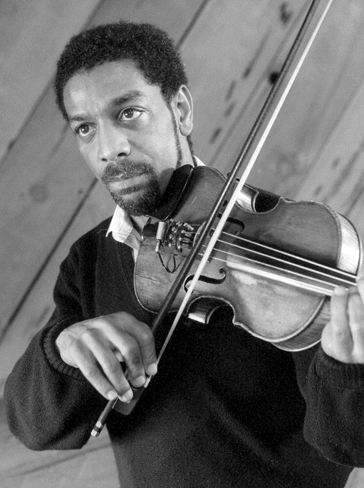 Billy Bang at Bach Dancing&Dynamite Society, Half Moon Bay CA 8/24/86w/William Parker, bass; Oscar Sanders, guitar; Zen Matsuura, drums. Photo by Brian McMillen /